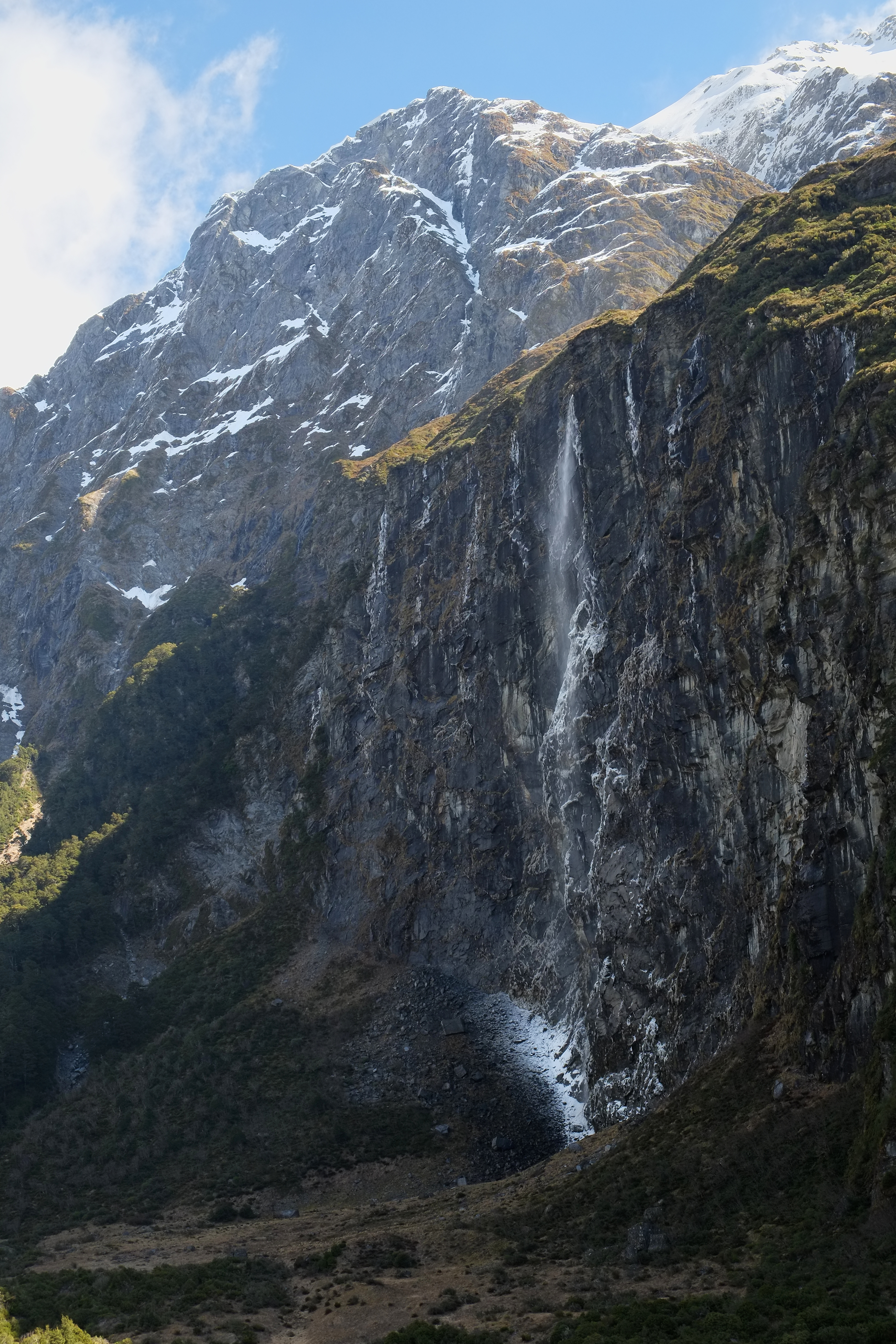 261m tall Rob Roy Falls as a "snowfall"; the meltwater re-freezes to snow and ice as it falls through the cold air (see snow and ice deposits at the base of the fall)